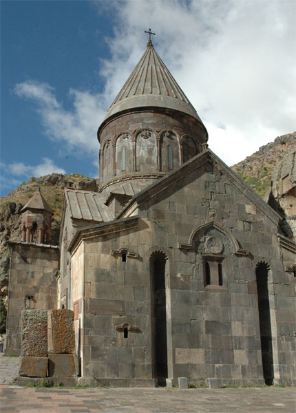 Geghard monastery. Church, Armenia